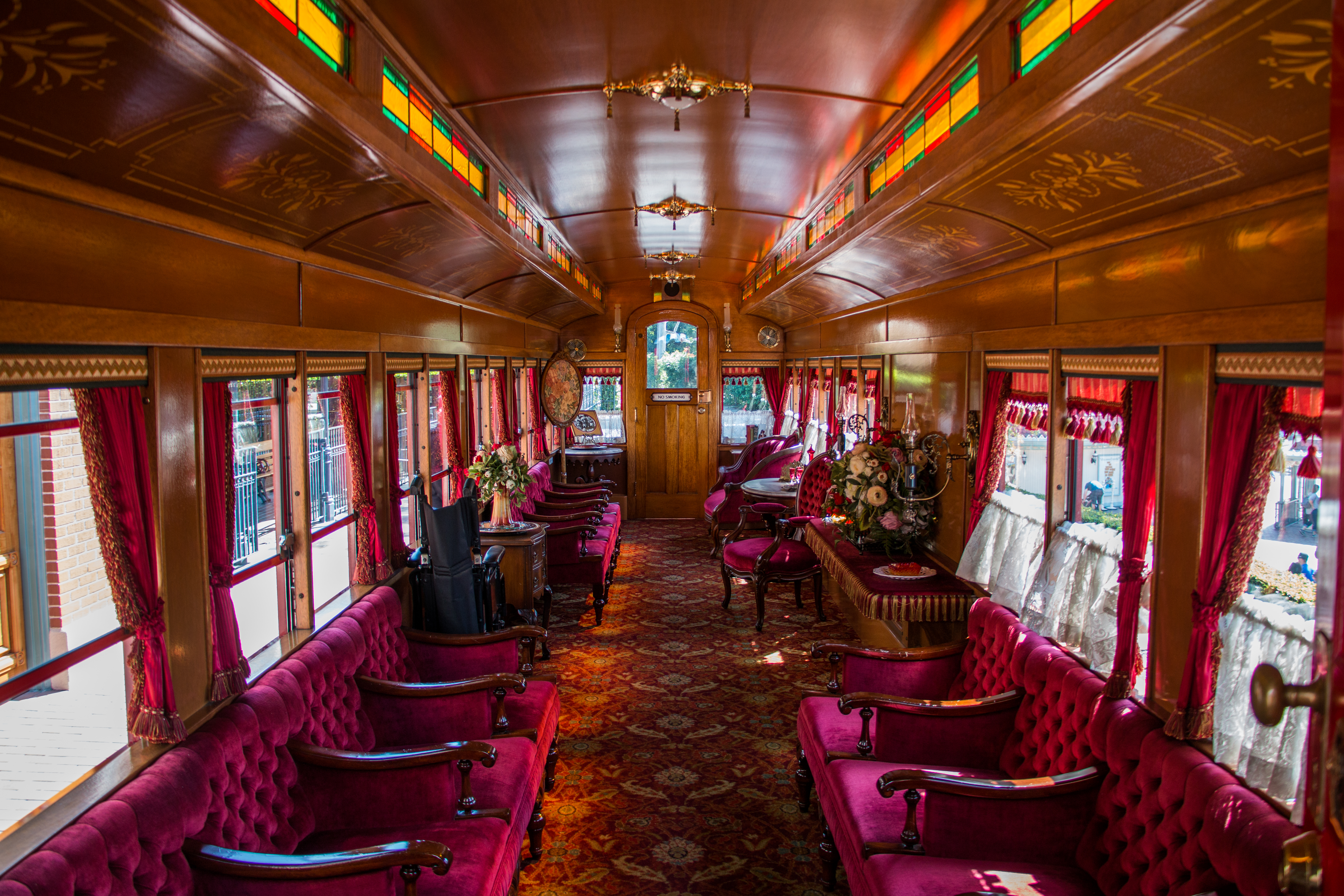 The gorgeous Lilly Belle train car at Disneyland.